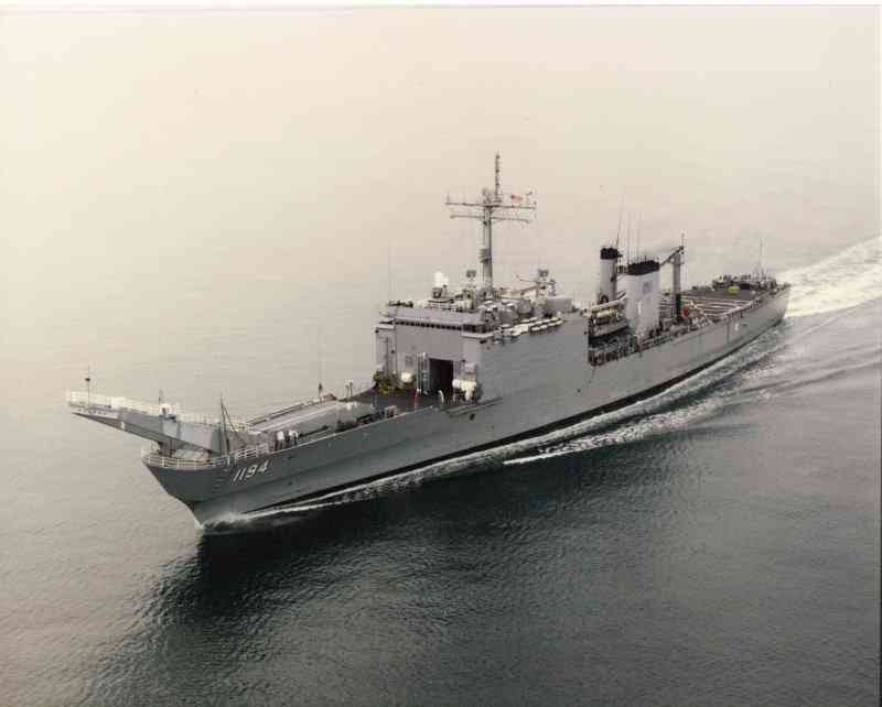 USS La Moure County (LST-1194) underway, date and place unknown.